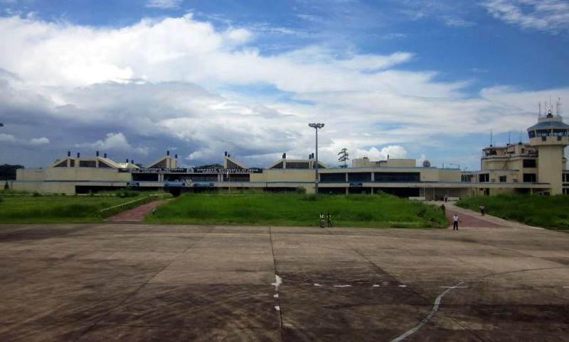 Panoramic view of the terminal at Dimapur Airport, constructed in 1994. It is the gateway and only civil airport of the State of Nagaland in North Eastern India.